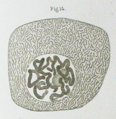 Salivary gland cell from Chironomus spec., larvae. Fresh, with 1 per cent formic acid. Structure of the cell substance. BALBIANI ball of threads in the nucleus, turns drawn only as far as followable; banding of the thread, which is presented dark, as after staining.